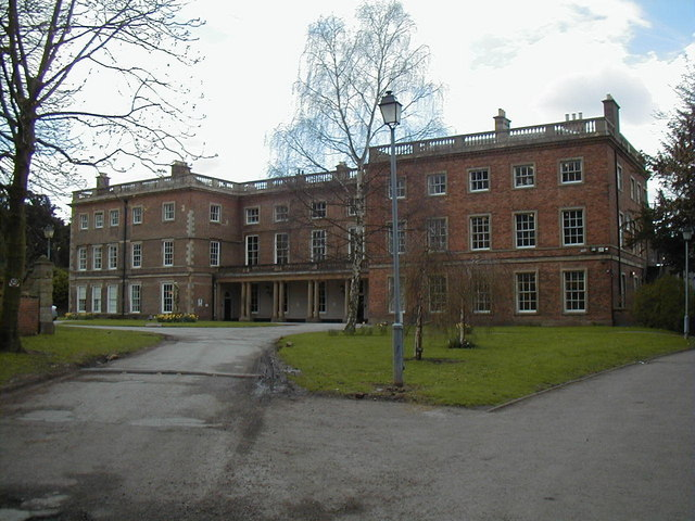 Entrance to Clifton Hall, Clifton, Nottingham The first view of the hall which met every teacher training student at Trent Polytechnic (later Nottingham Trent University) on arrival at the Hall where the School of Education was sited 1977-2000